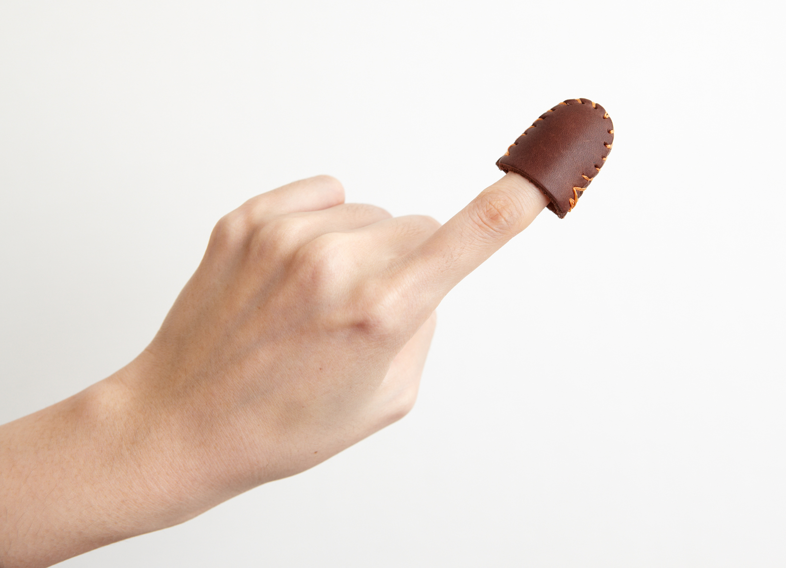 Golmu (thimble)